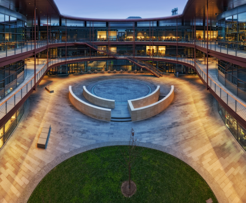 The James H. Clark Center at twilight.